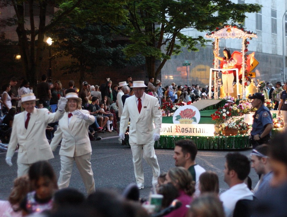 During the 2010 Starlight Parade of the annual Portland Rose Festival, in Portland, Oregon, a few Royal Rosarians accompany the float carrying the 2010's festival's Queen.